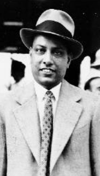 Kasturbhai Lalbhai, an Indian industrialist, in 1940s. Image taken by The Times of India in 1940s. So now in PD.